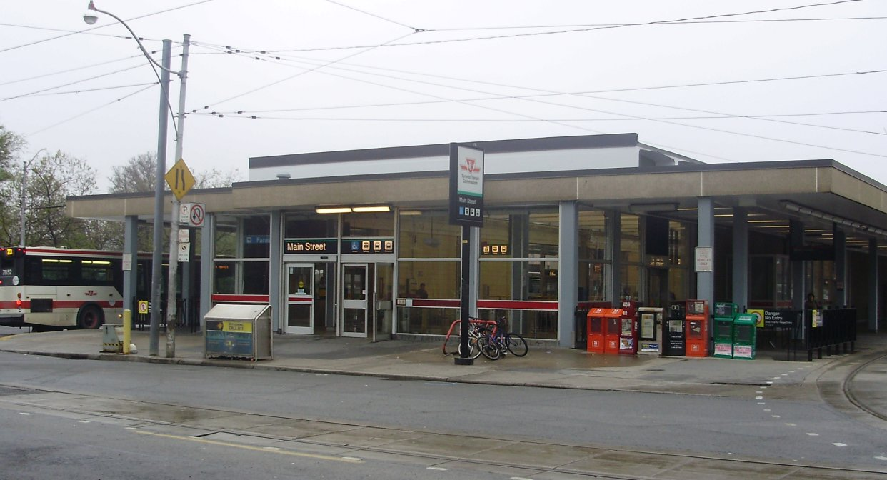 Main Street subway station in Toronto, Ontario.